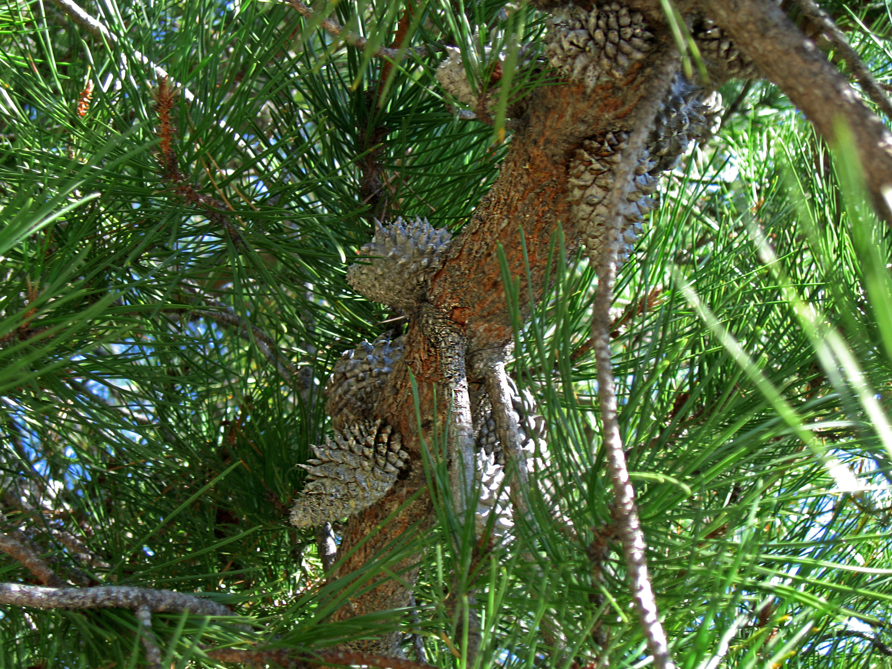 Photo was taken on Terrace Hill in the city of San Luis Obispo